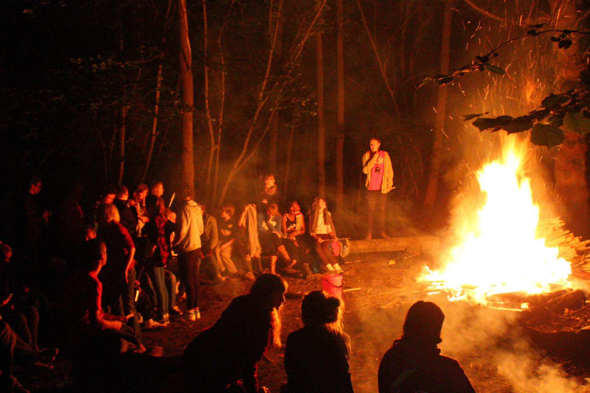 Dave Pickett speaking at an Abide Weekend campfire.